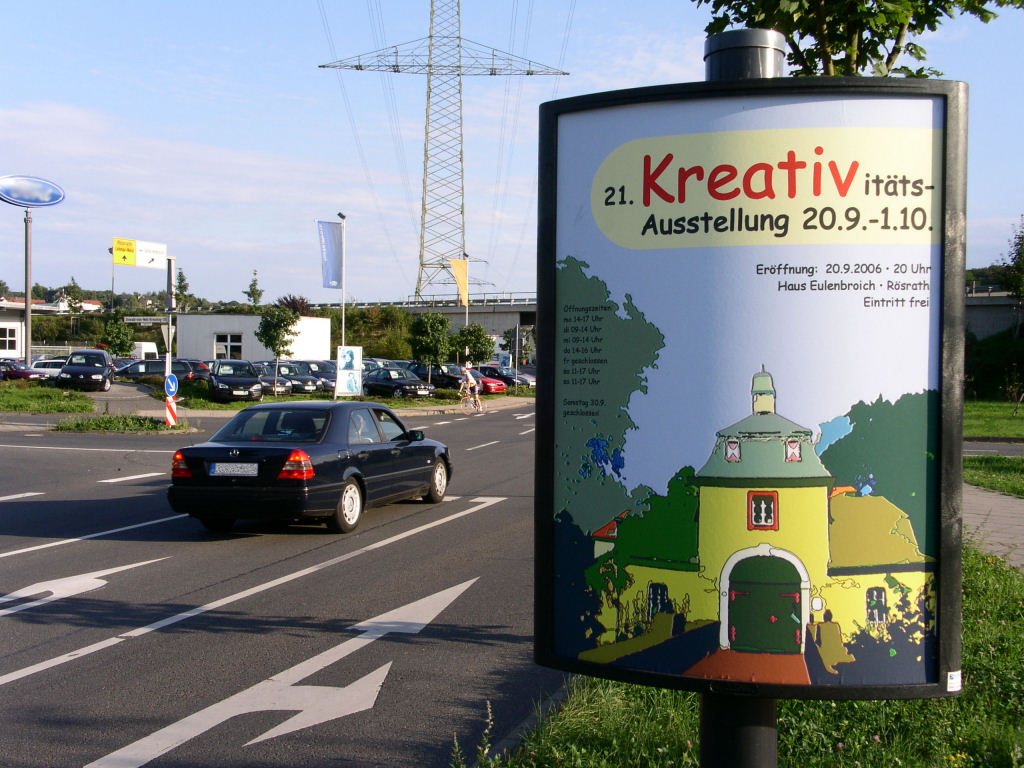 Gateway of Eulenbroich castle in Rösrath as poster